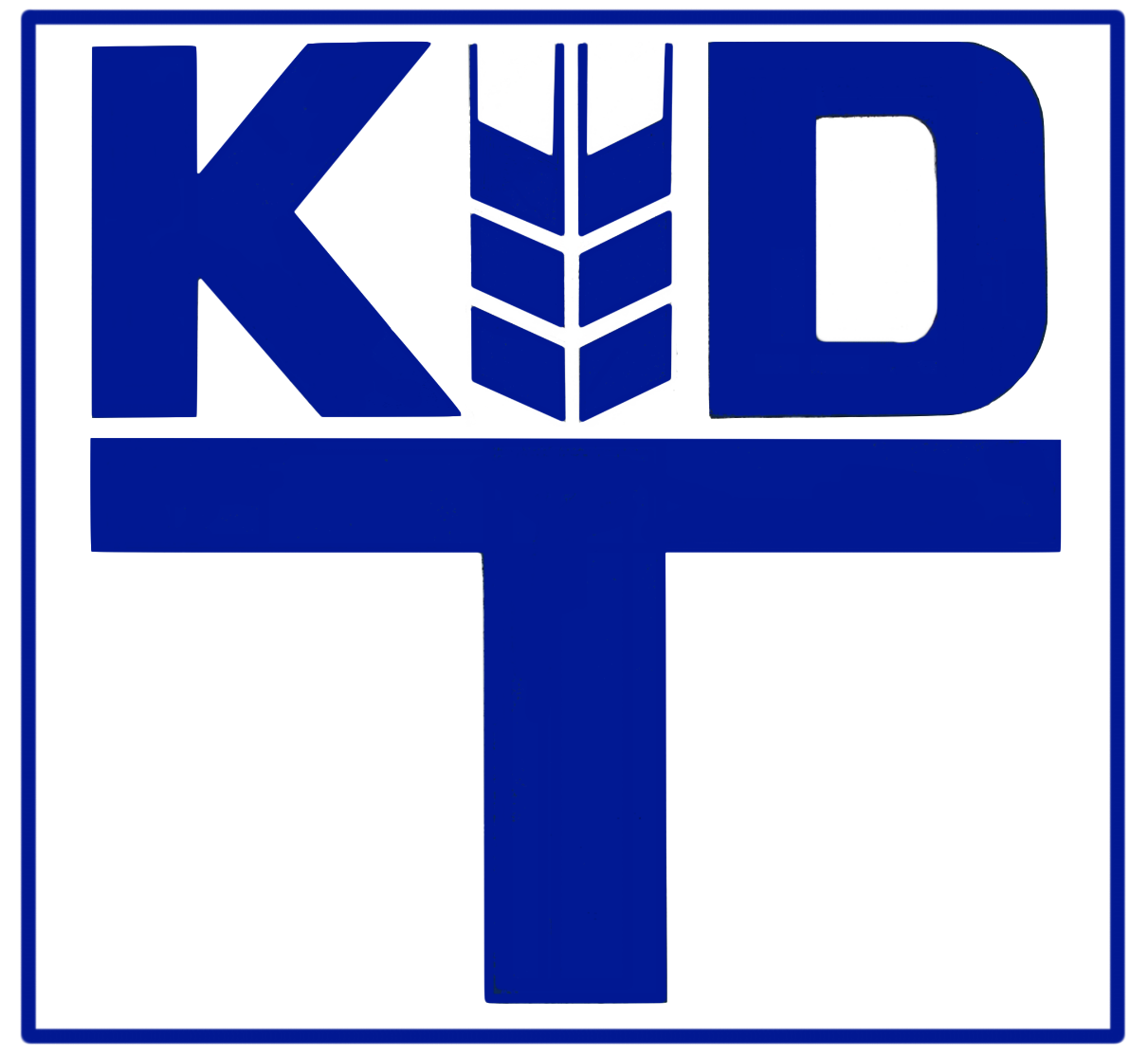 Logo of the Kammer der Technik (DDR)